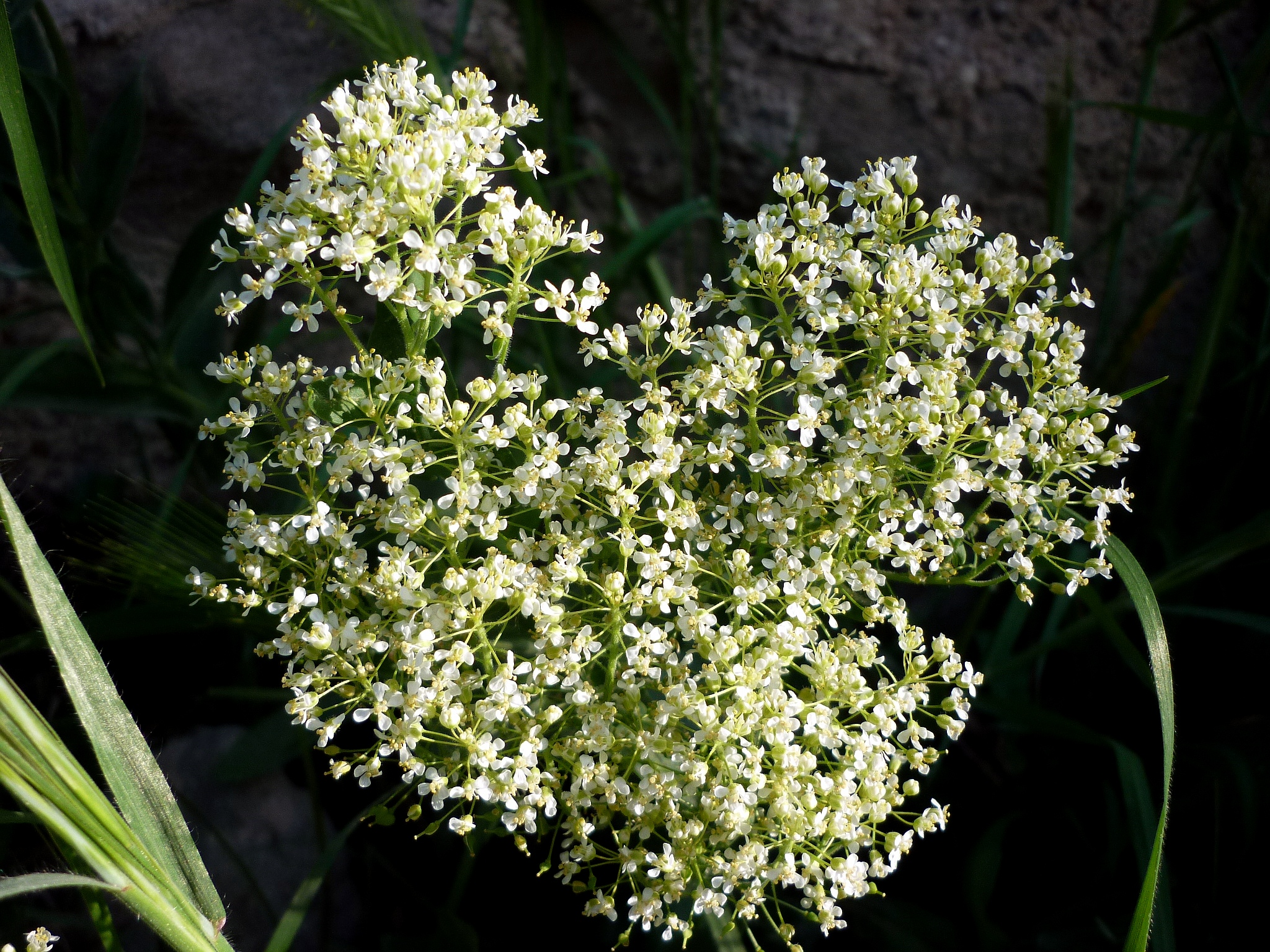 Lepidium draba. In Torà (Segarra-Catalunya). To 430 m. altitude